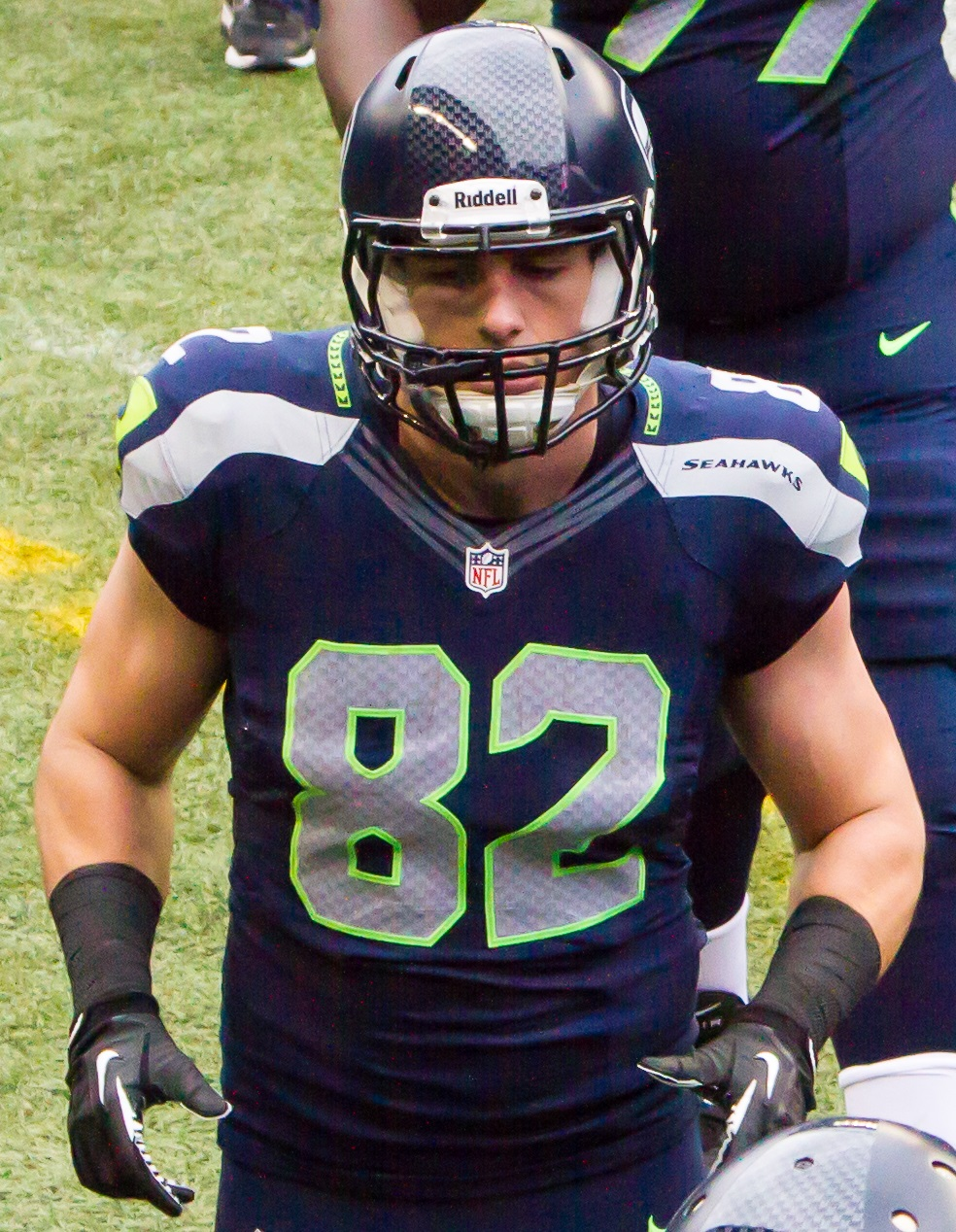 Luke Willson, Seahawks vs Rams 12.29.13